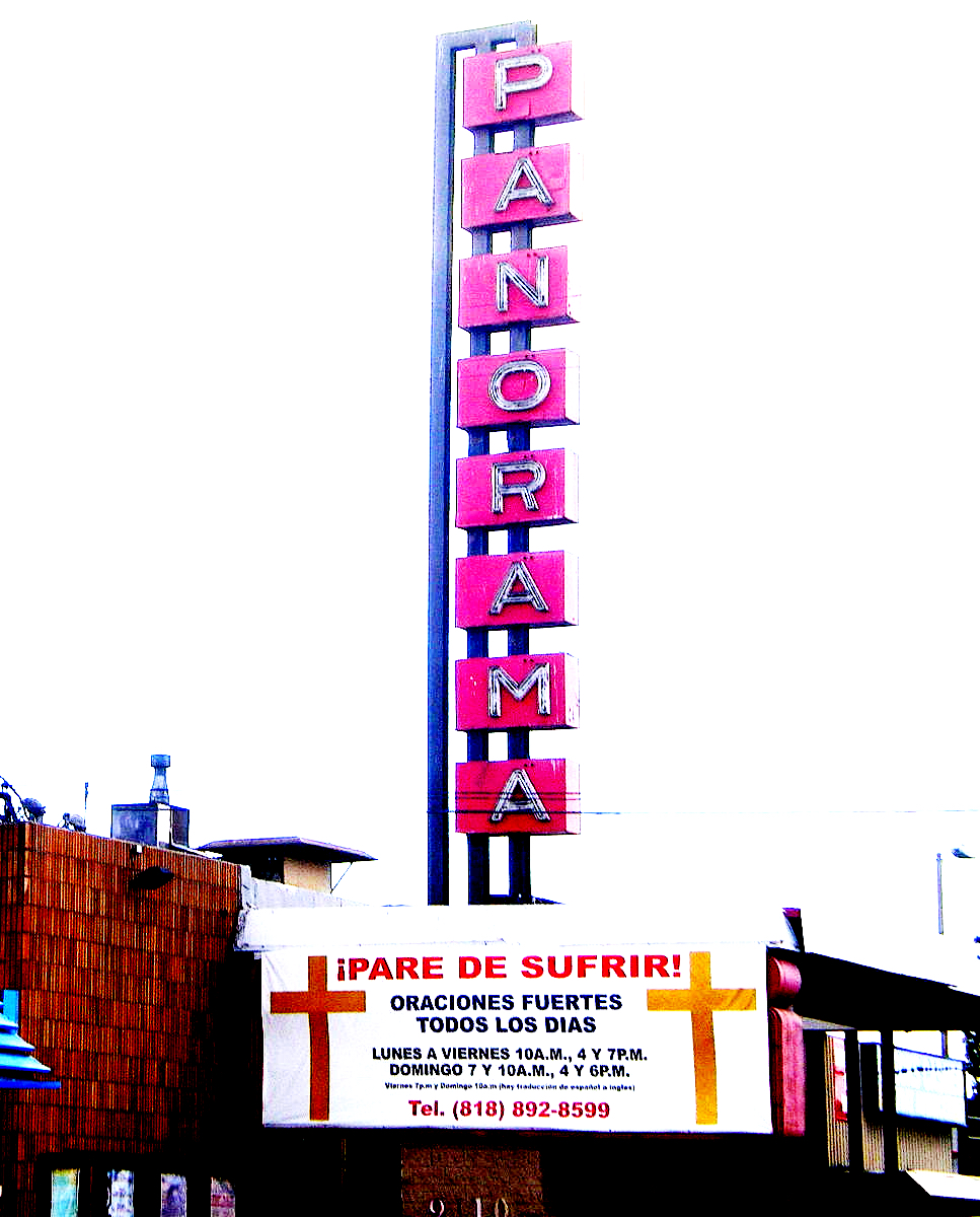 Exterior of Panorama Theater converted into a church, Panorama City